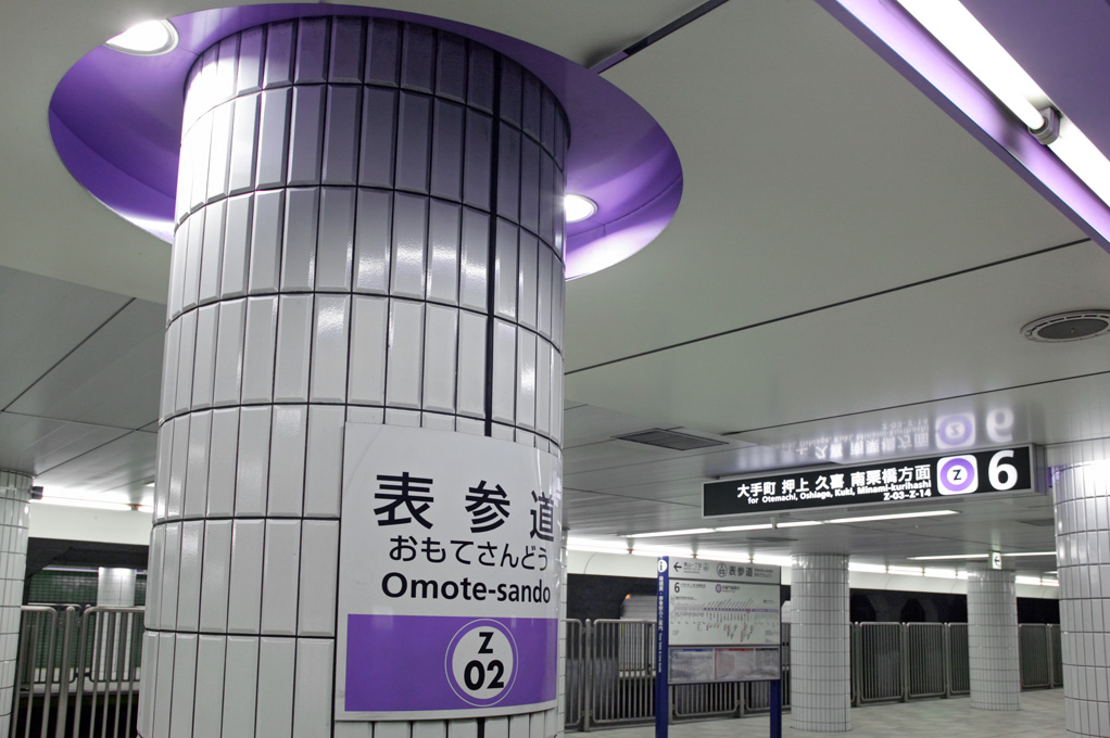 A Line color scheme of Omotesandō Station Tokyo Metro Hanzōmon Line